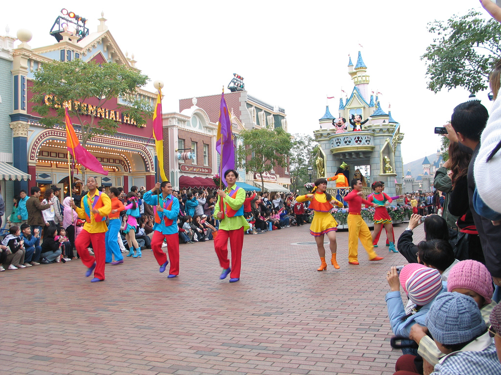 Hong Kong Disneyland parade by Dave Q